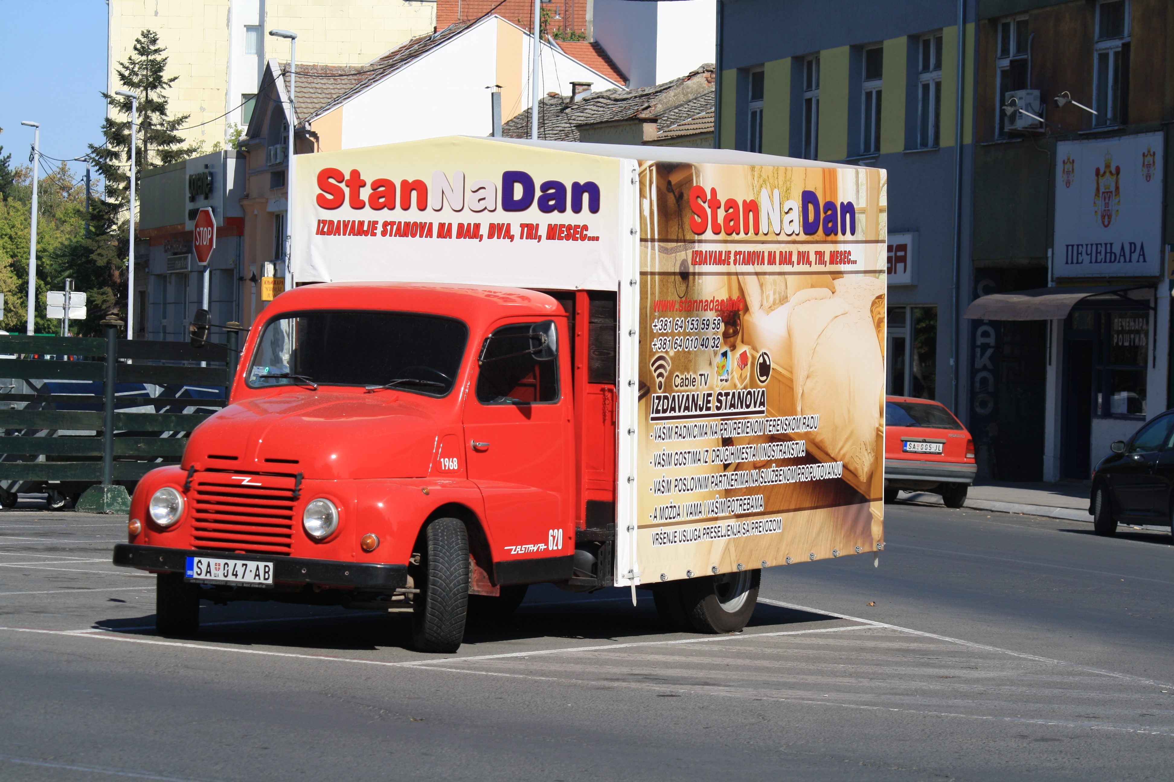 Zastava 620 light truck. Српски (ћирилица): Камион Застава 620.